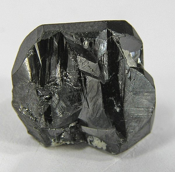 Tapiolite Locality: Baixão da Laje mine, Parelhas, Borborema mineral province, Rio Grande do Norte, Northeast Region, Brazil (Locality at ) Size: 1.4 x 1.3 x 0.7 cm. Tapiolite is actually a group name for the Ferrotapiolite-Manganotapiolite series. Iron and manganese can substitute for one another, and also the rare elements tantalum and niobium - two elements you almost never see in mineral specimens. Good crystals such as this are very rare! And this one is lustrous, sharp and complete, with shiny faces and only one contact on the underside. Ex. Carl Davis Coll., old piece.